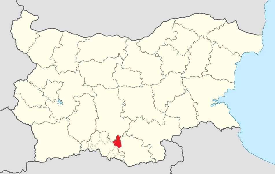 Location map of Banite Municipality within Bulgaria and Smolyan province